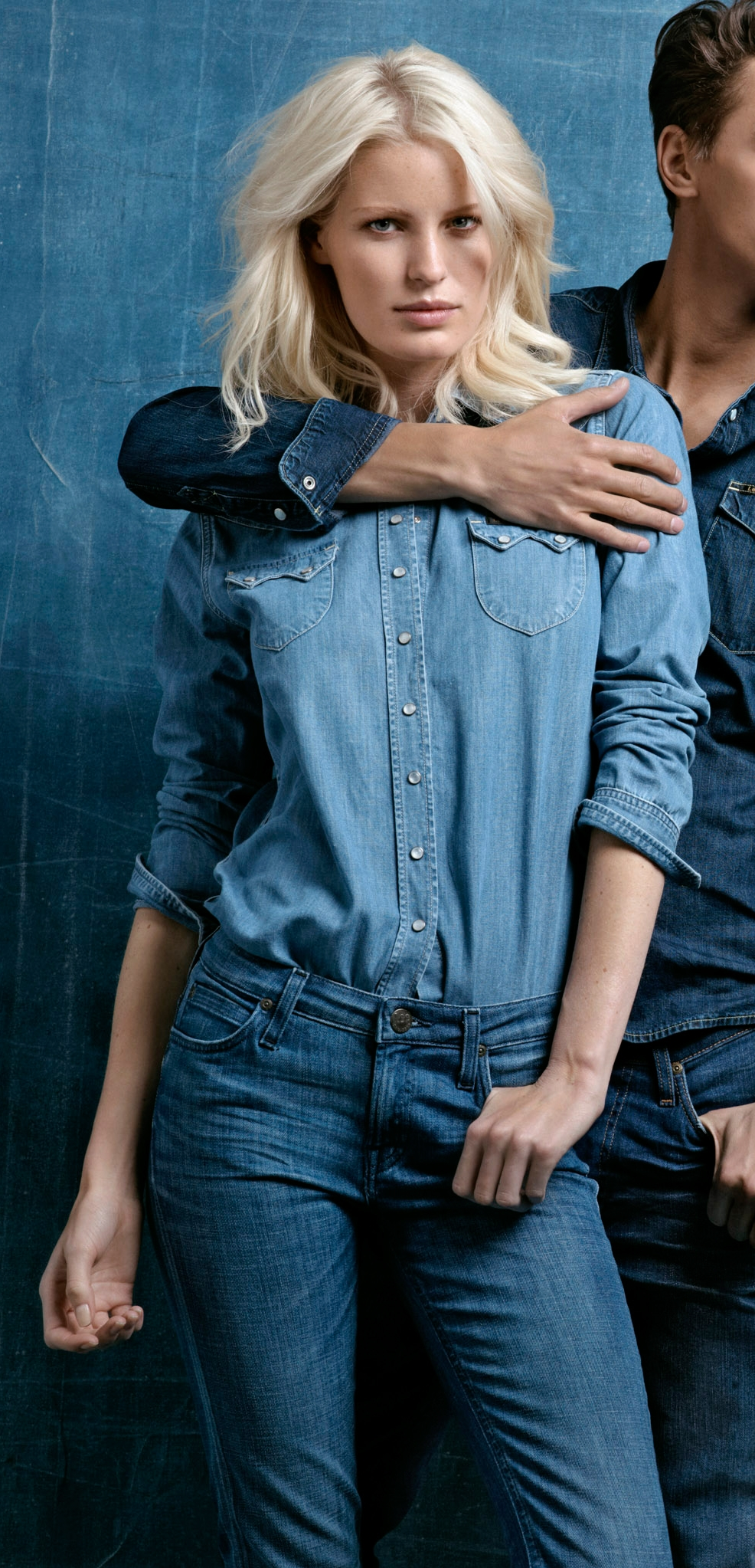 Caroline Maria Winberg (born 27 March 1985) is a Swedish model and actress